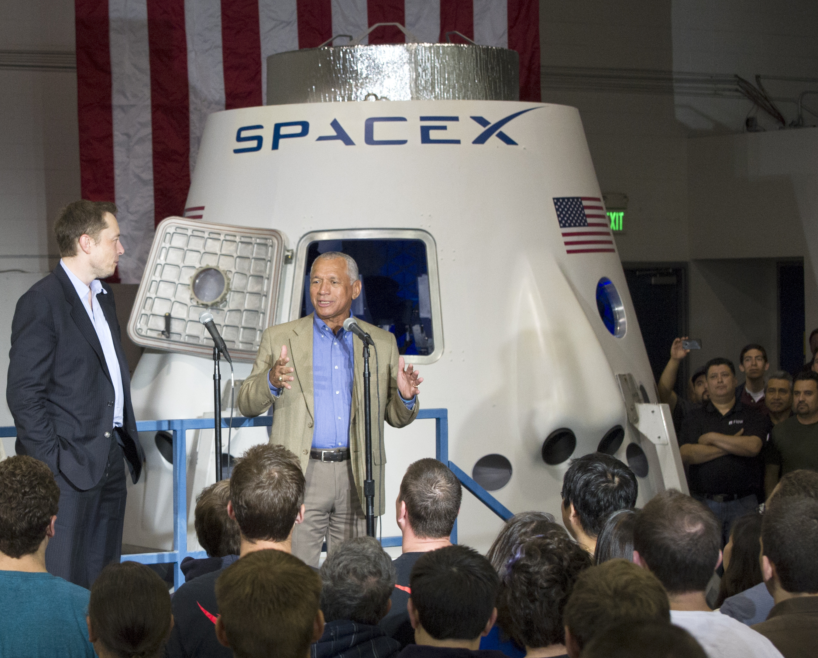 Elon Musk (left) and Charles Bolden (right) stand in front of the DragonRider mock-up at SpaceX's Hawthorne headquarters on 14 June 2012.